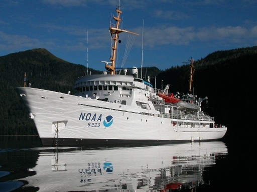 Image of the NOAA Ship Fairweather